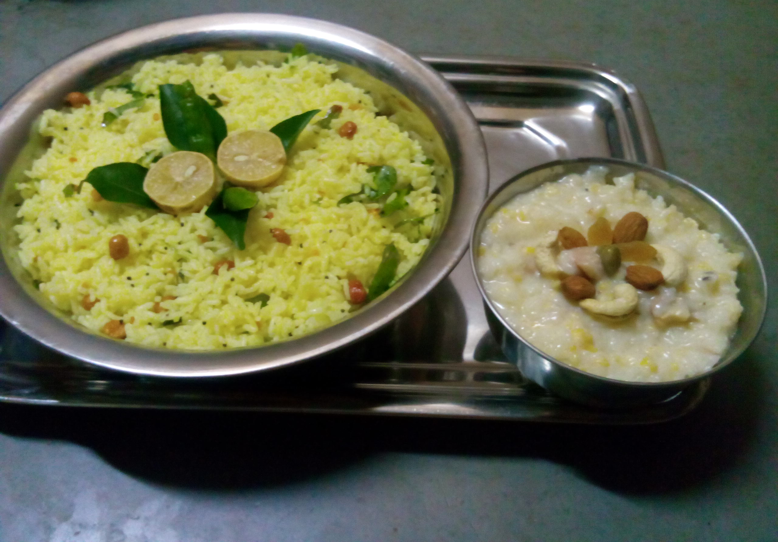 Chitranna is prepared with rice and lemon with nice blend of seeds and vegitables.